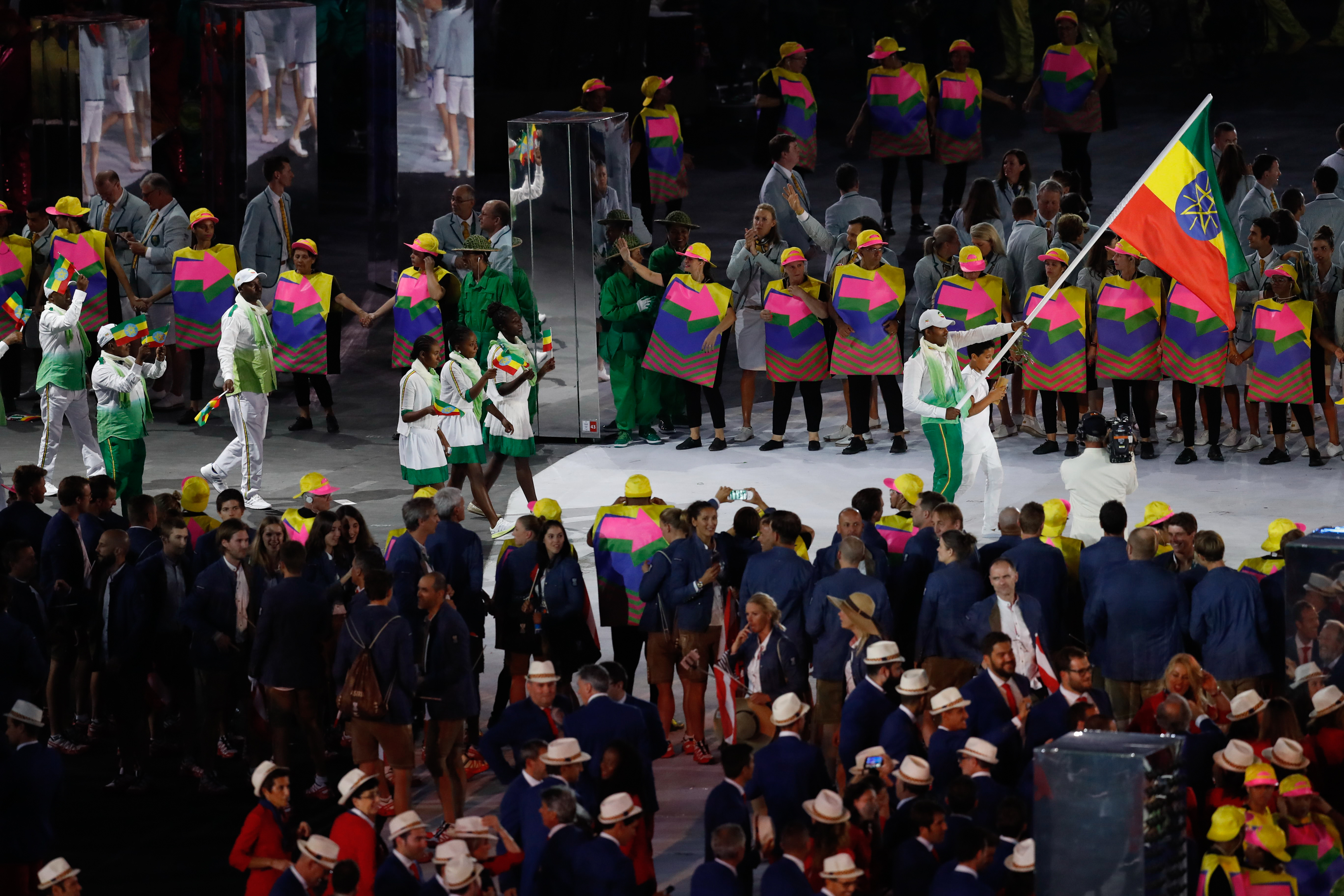 Rio de Janeiro - Cerimônia de abertura dos Jogos Olímpicos Rio 2016 no Estádio do Maracanã. (Fernando Frazão/Agência Brasil)